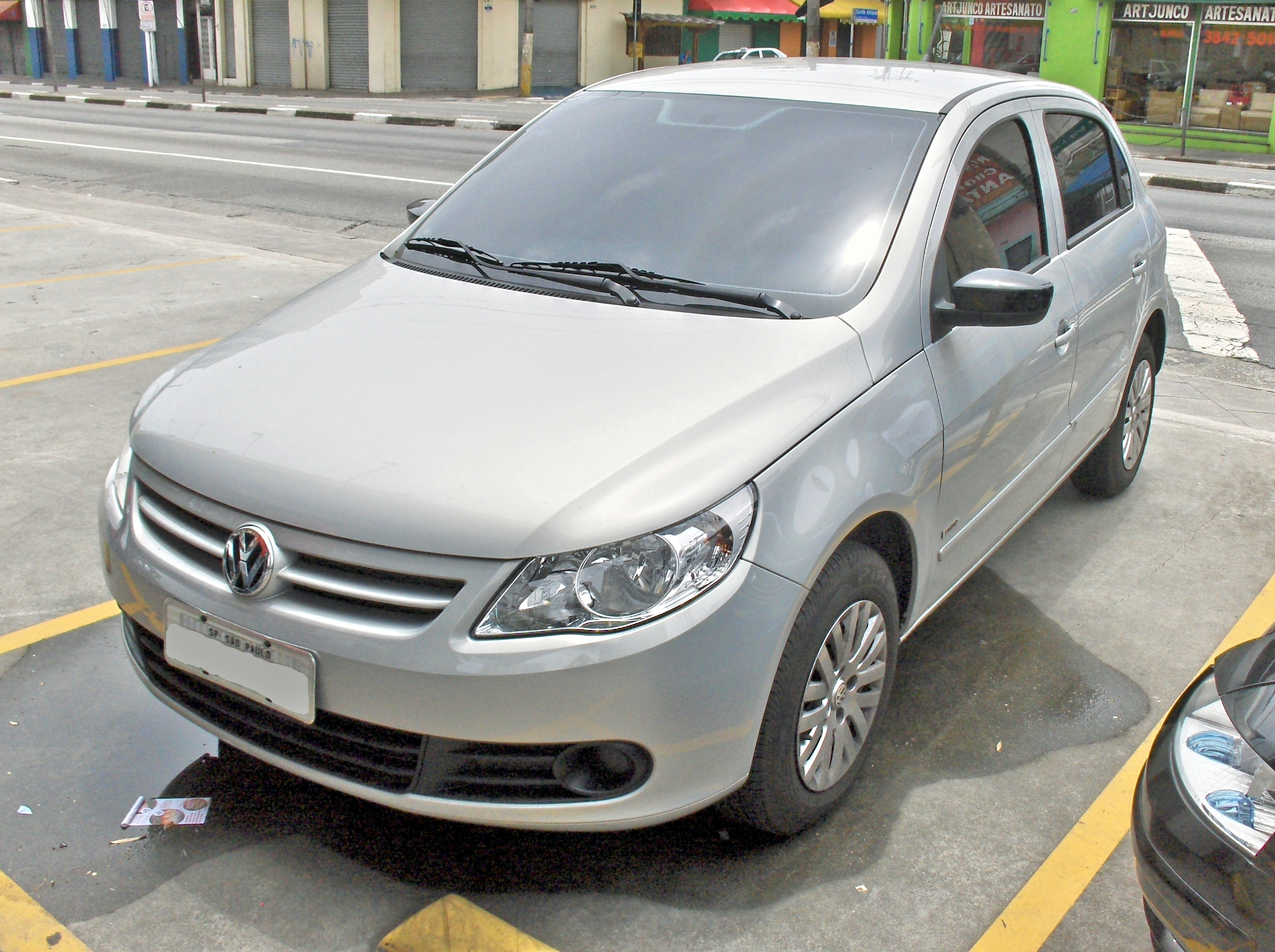 Volkswagen Gol Mk5 2009 car in Brazil.